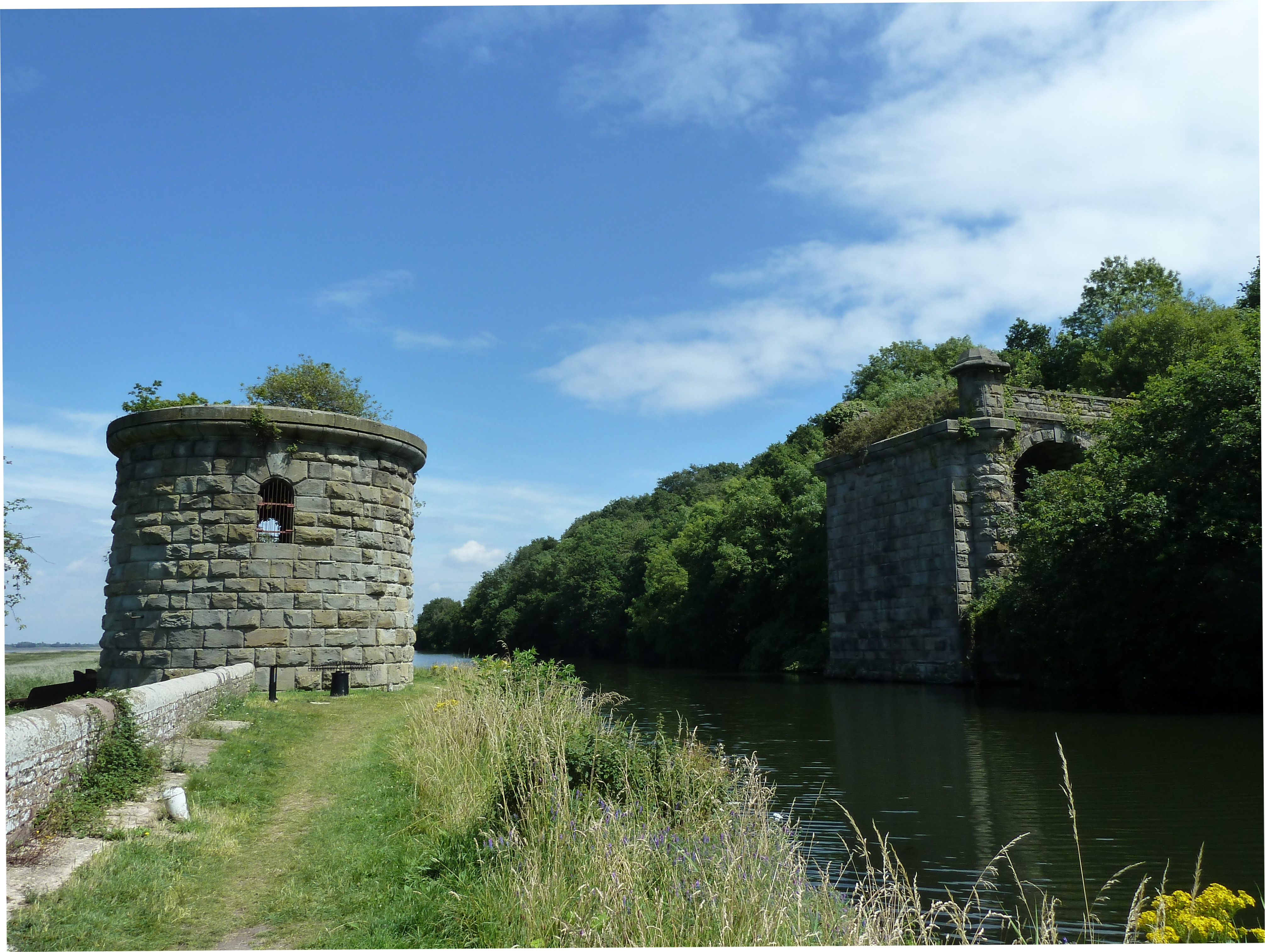 Remaining tower of the swing section and approach arch for the Severn Railway Bridge, here over the Gloucester and Sharpness canal